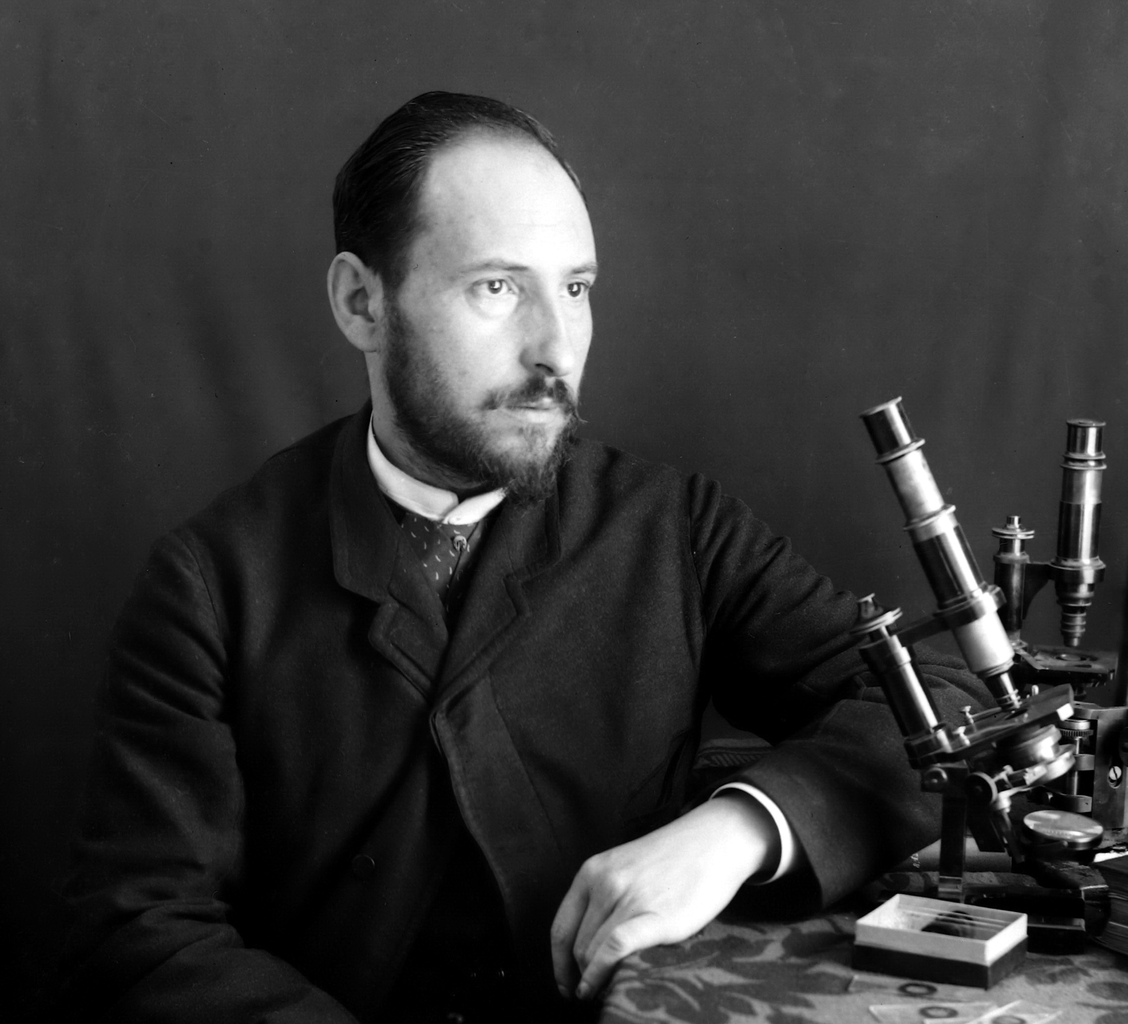 Santiago Ramón y Cajal (1 May 1852 – 18 October 1934) is considered by many scientists today to be the father of modern neuroscience. Pictured with a Carl Zeiss Stand Va. Images donated as part of a GLAM collaboration with Carl Zeiss Microscopy - please contact Andy Mabbett for details.